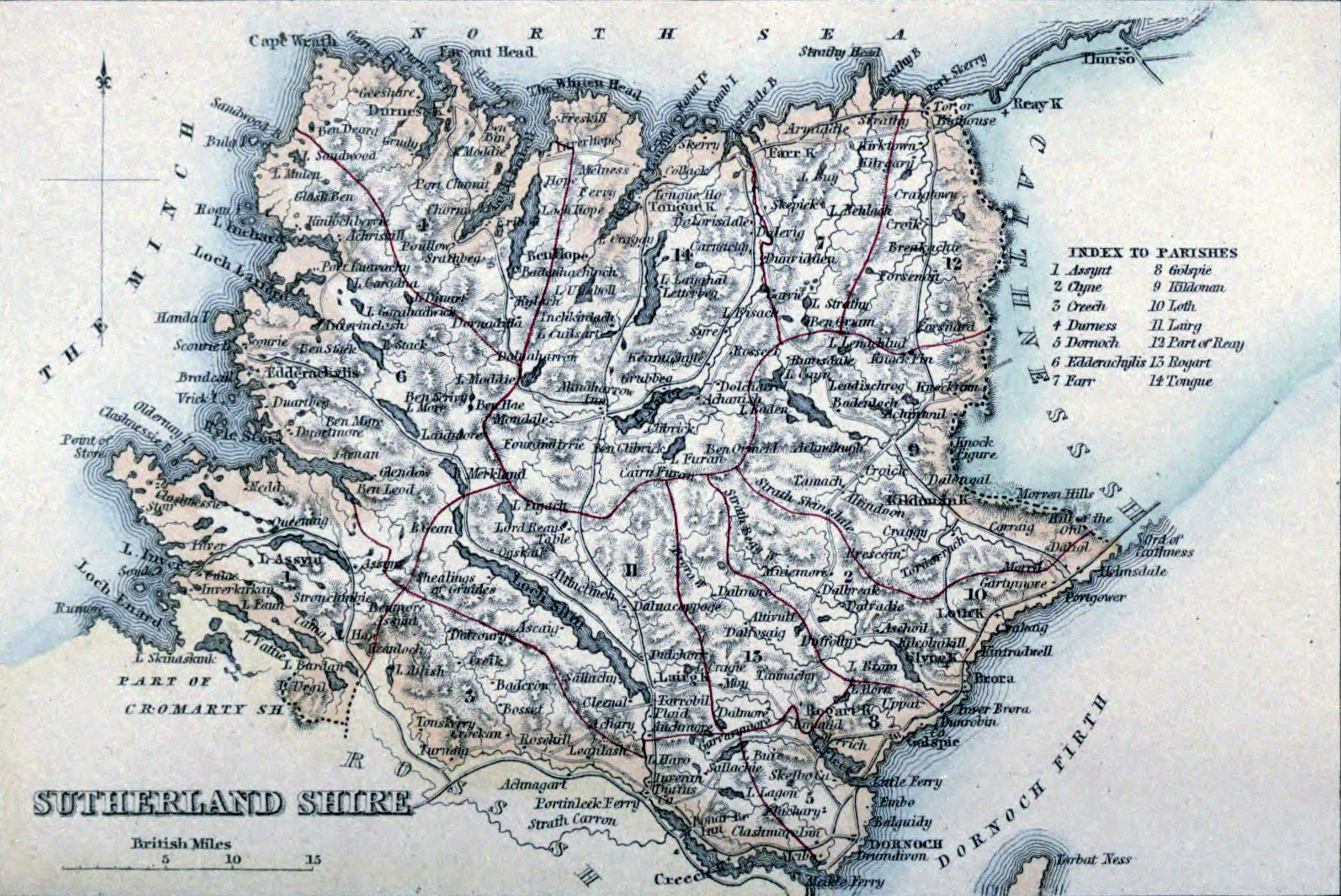 1861 SUTHERLANDSHIRE. The Imperial Gazetteer of Scotland. VOL.II. Edited by Rev. John Marius Wilson